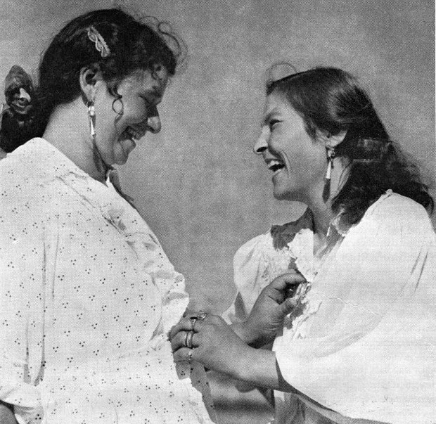 Hauska tapaaminen by Erkki Niemelä